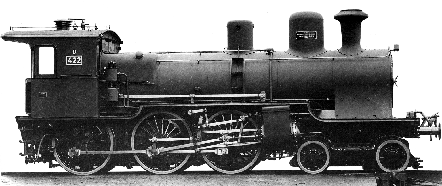 Steam locomotive Württemberg D.